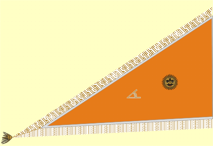 Mewar Royal Standart